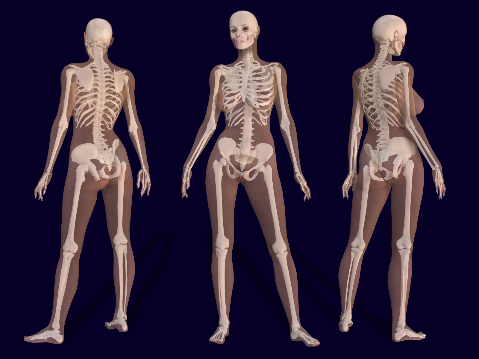 3D render of a female skeleton with body shape in three views. Resolution: 1600 x 1200 px, 150 dpi.